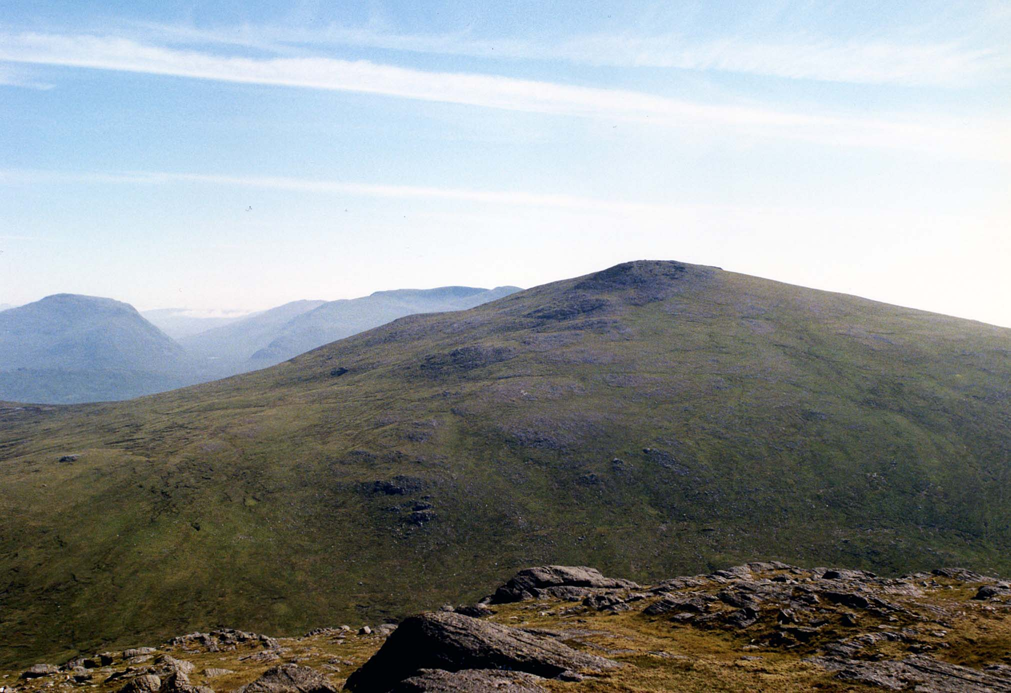 Chno Dearg seen from Stob Coire Sgroidain.